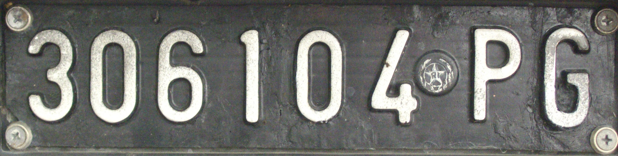 Italy. Front Vehicle registration plate of the city of Perugia.